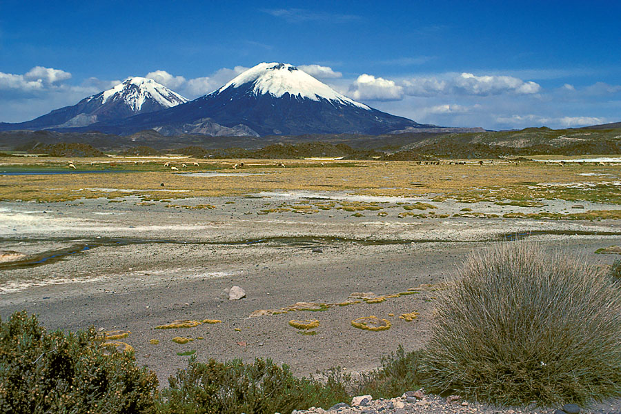 The Parinacota an Pomerape volcanoes form the Nevados de Payachata or "Two Sisters" volcanic group on the Chile-Bolivian border.